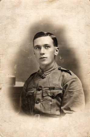 Photograph of Harry Beadles